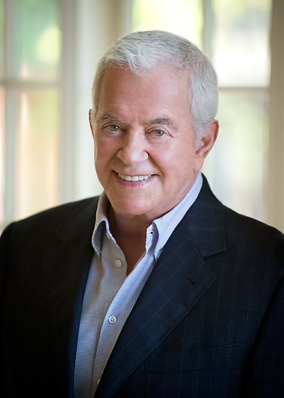 Mark Damon, CEO & Chairman of Foresight Unlimited, LLC.